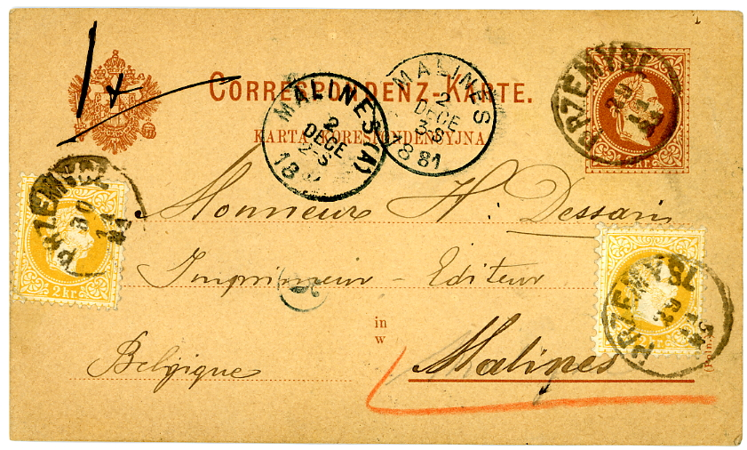 Austrian KK Correspondenz-Karte, Polish issue, cancelled at PRZEMYSL in 1881 (Galicia, Poland), with 2 additional 2 kr stamps.